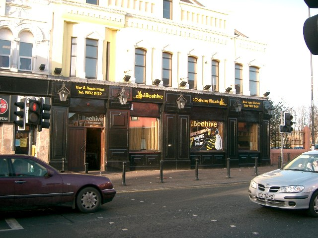 The Beehive. A popular watering hole on The Falls Road.